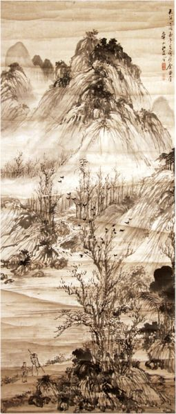 A painting of Watanabe Kazan. Watanabe Kazan was a Japanese painter, scholar and statesman member of the samurai class.